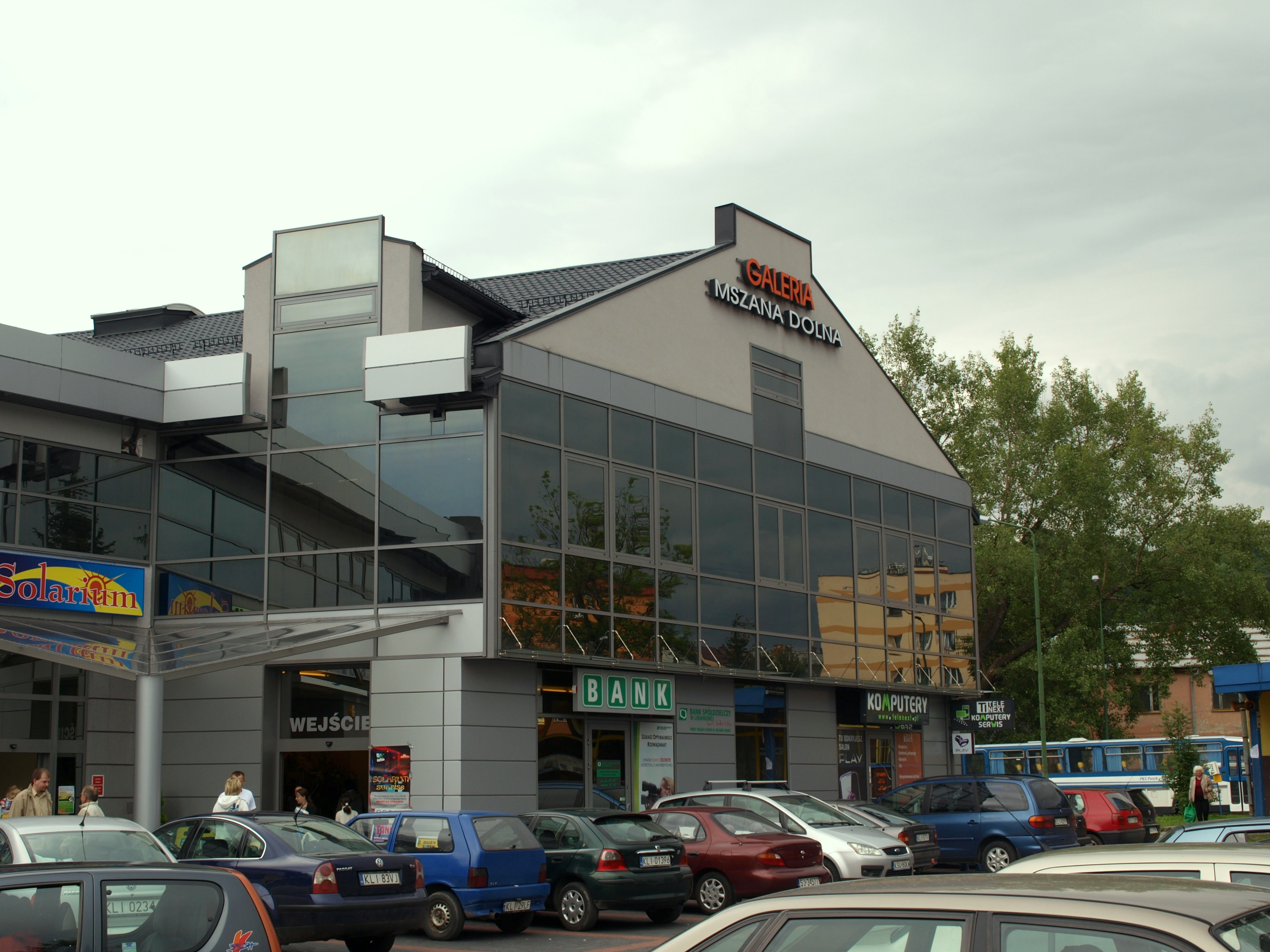 Shopping Center Mszana Dolna (Tesco)